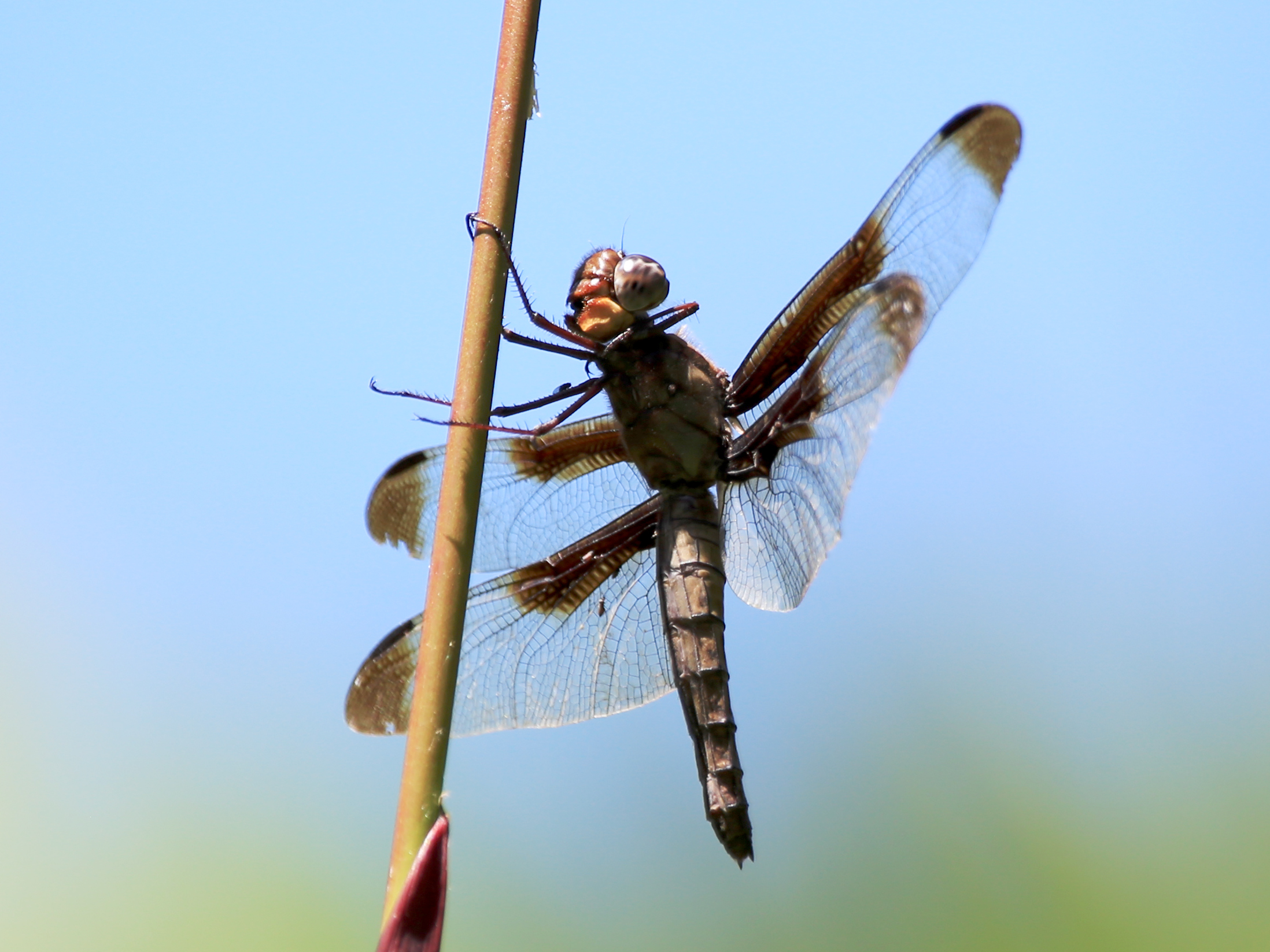 Black Knight (female) Camacinia othello in Cairns, Queensland, Australia. A large dragonfly with a wingspan of 115mm. The wing markings are vastly different from the male of the species